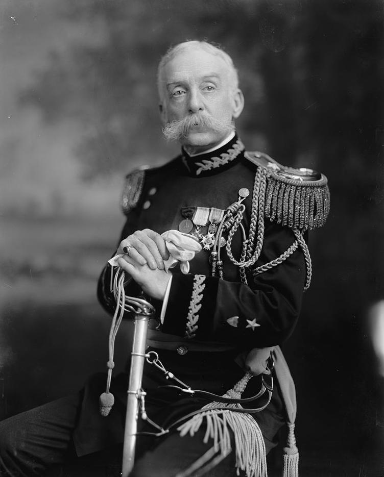 George Andrews, Adjutant General.